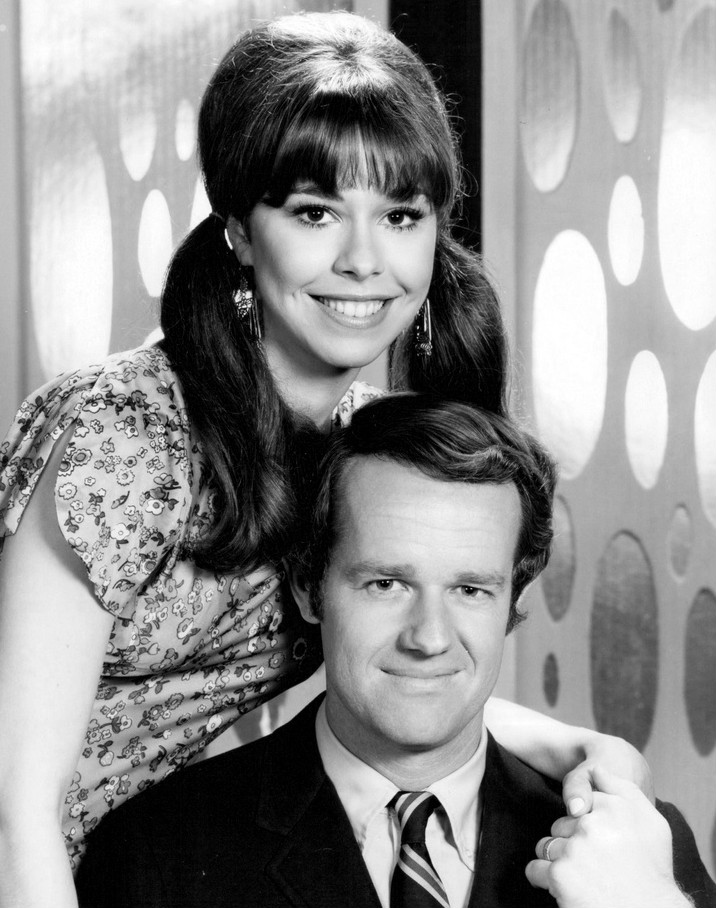 Mike Farrell and Elaine Giftos, as Sam and Bobbe Marsh from the television medical drama the Interns.